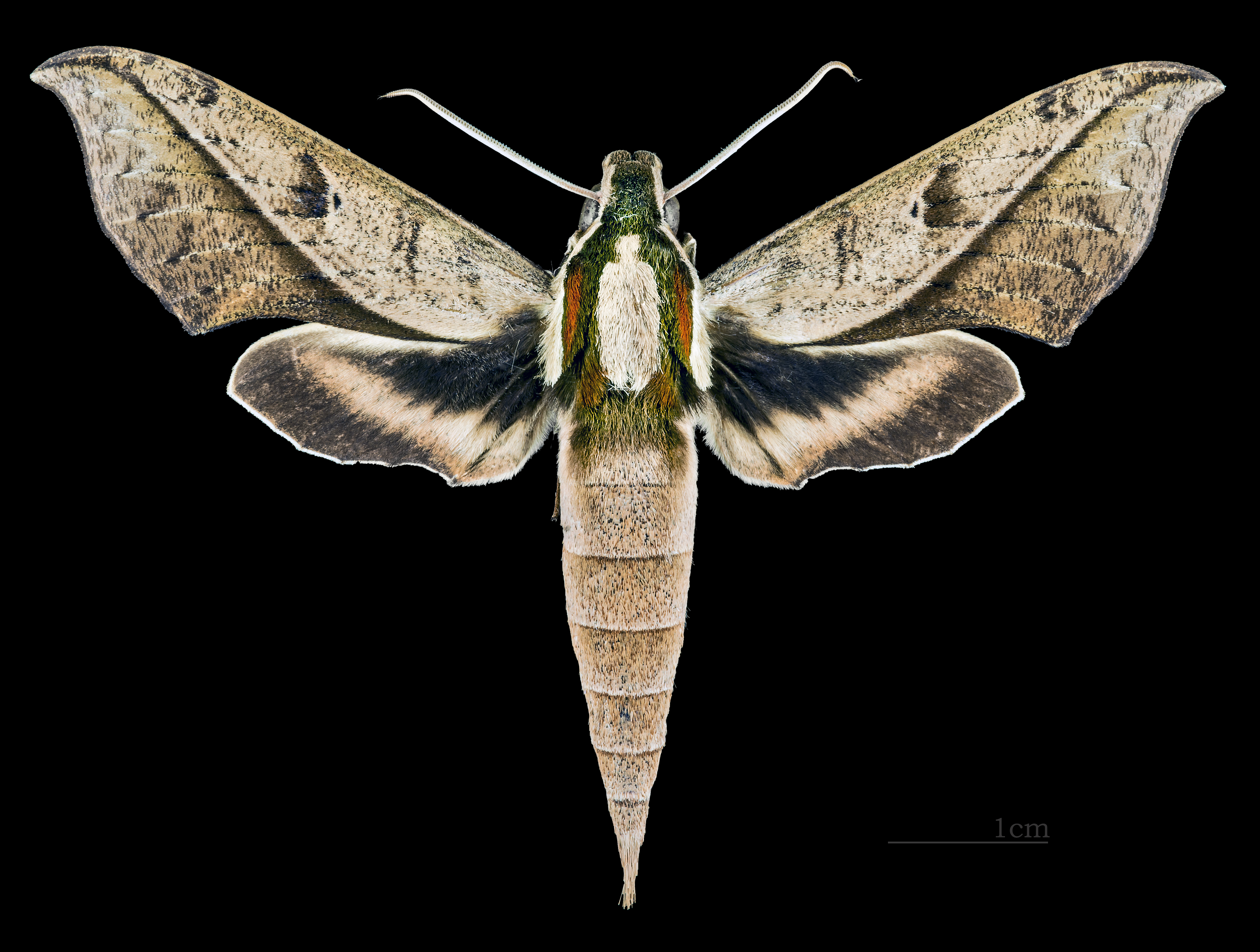 Xylophanes epaphus - Dorsal side